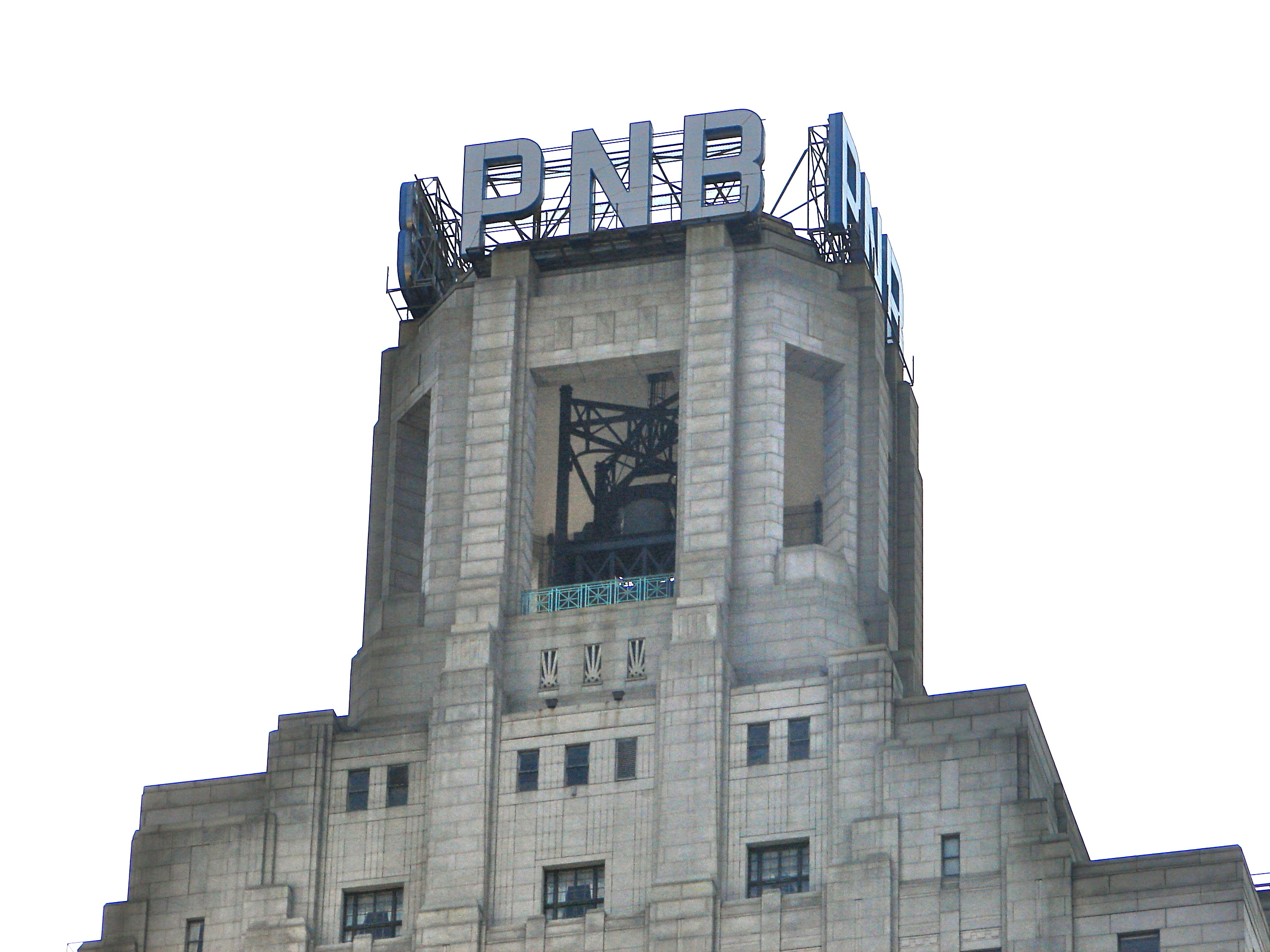 One South Broad Streetin the Broad Street Historic District in the center of Center City Philadelphia. On the NRHP since April 6, 1984. The HD is roughly bounded by Juniper, Cherry, 15th, and Pine Sts. in Philadelphia. Photo shot from Chestnut Street about 2 blocks west of Broad